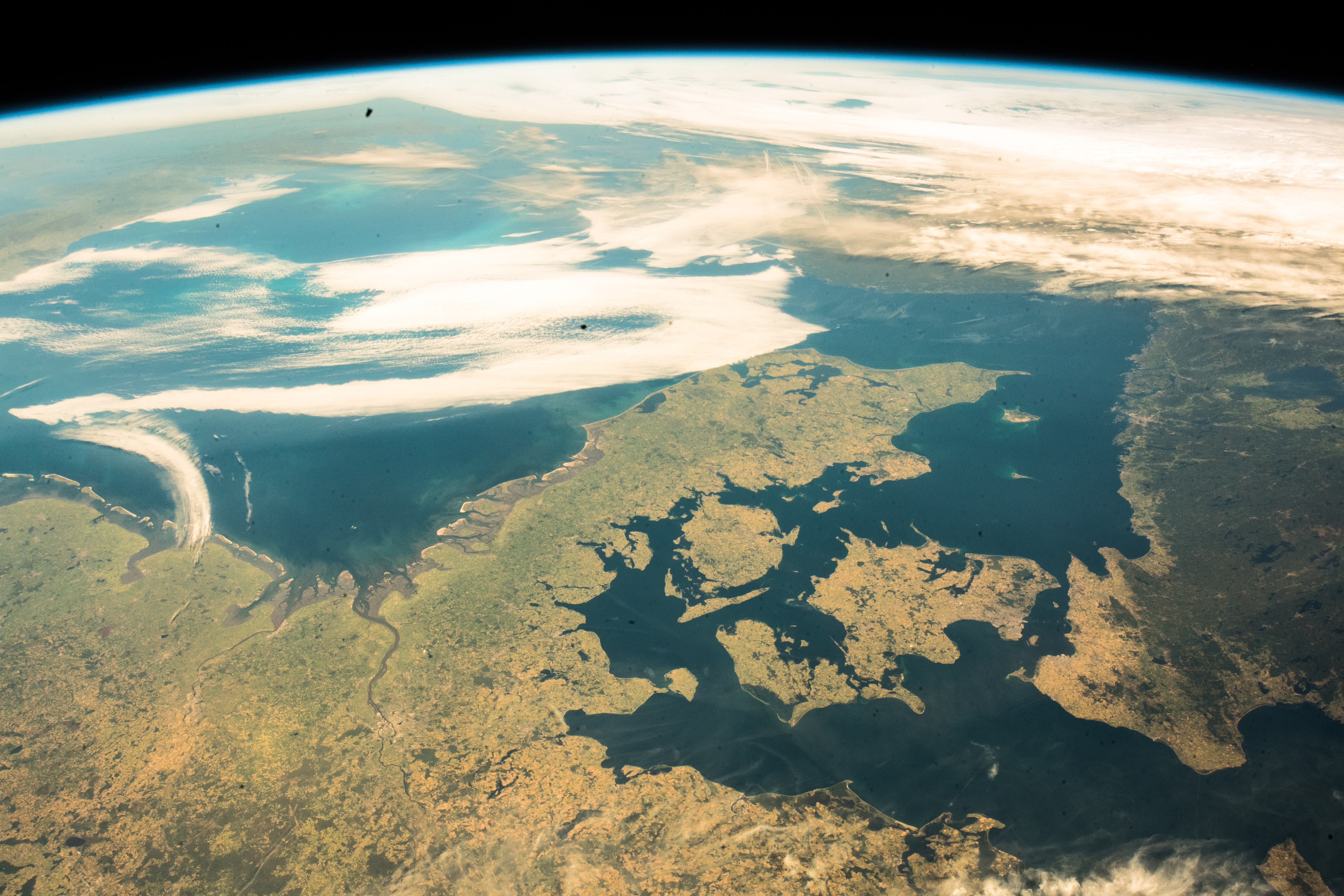 Denmark